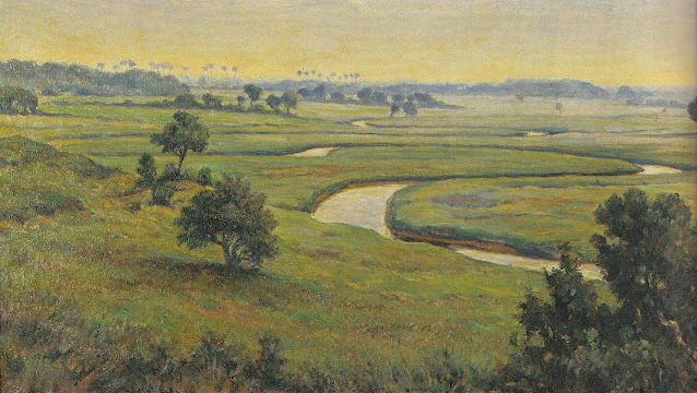 Oil painting made by Evert Musch who was my father. It shows the Drentse Aa valley (the Netherlands) seen from the Kymmelsberg. The painting measures 55 x 205 cm and was made between 1946 and 1955. The copyrights are owned by the heirs of Evert Musch.